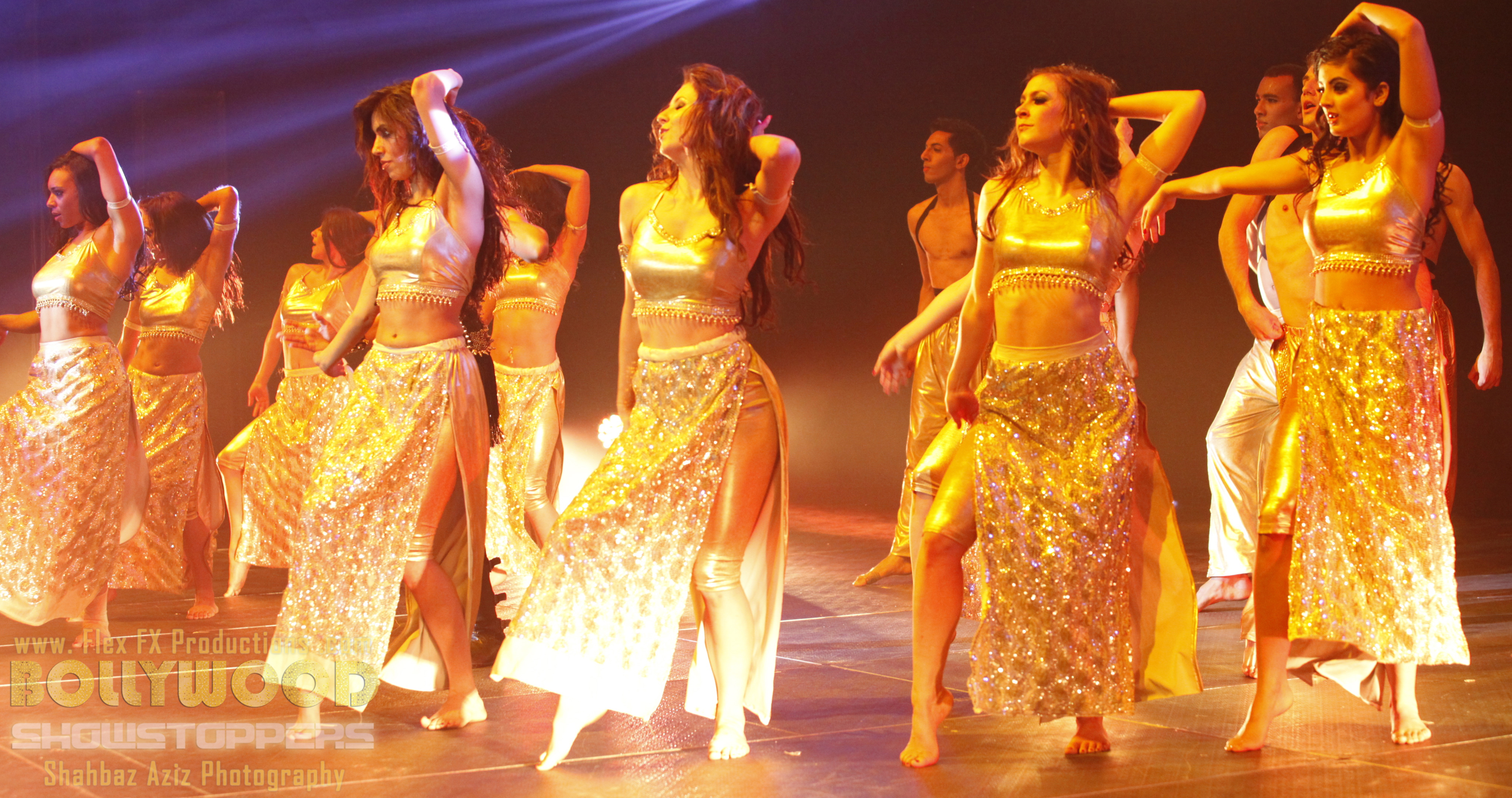 Bolly Flex Bollywood Dancers UK performing Live at The O2 Arena London in Bollywood Showstoppers